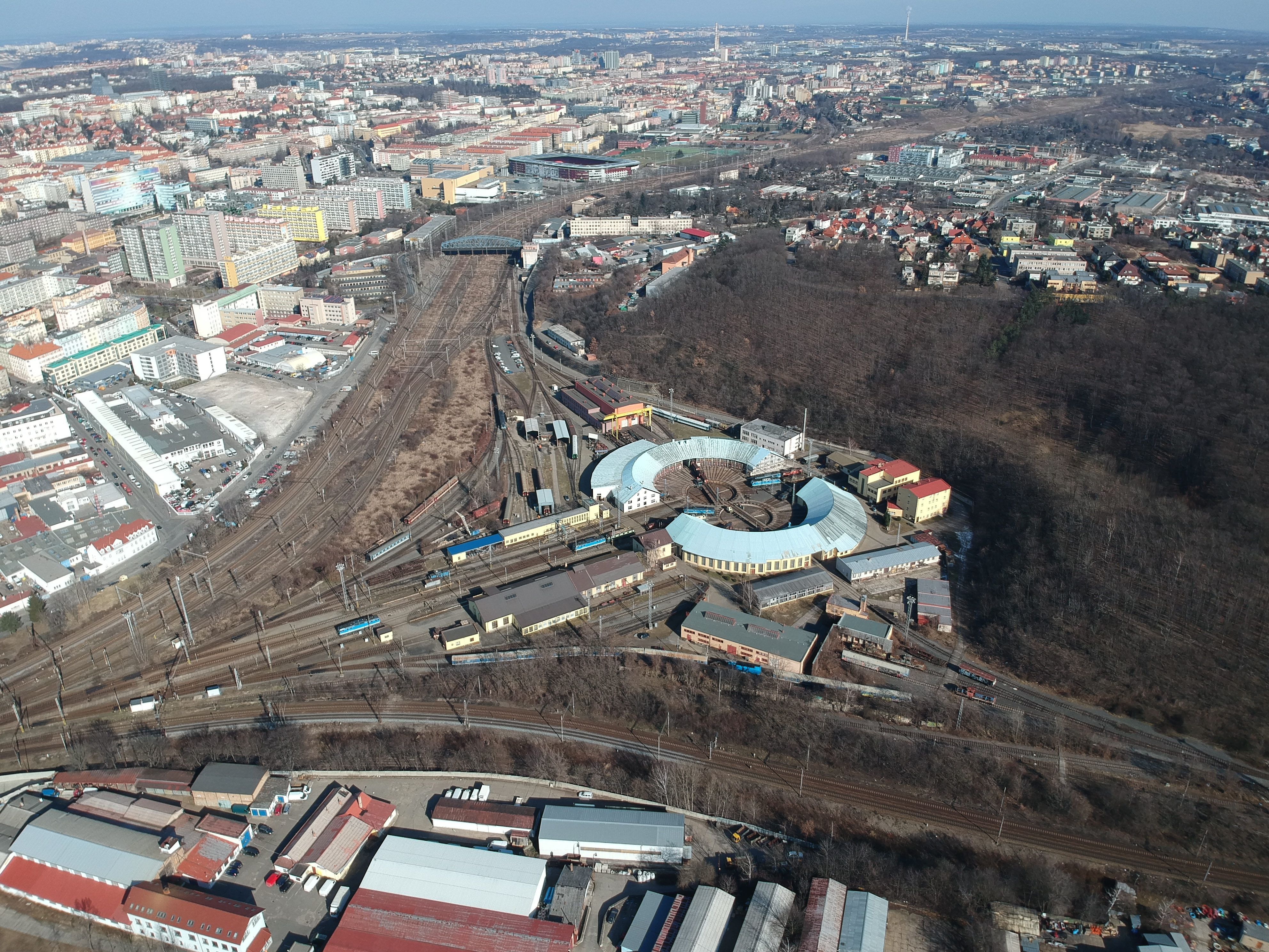 Turntables, Prague-Vršovice